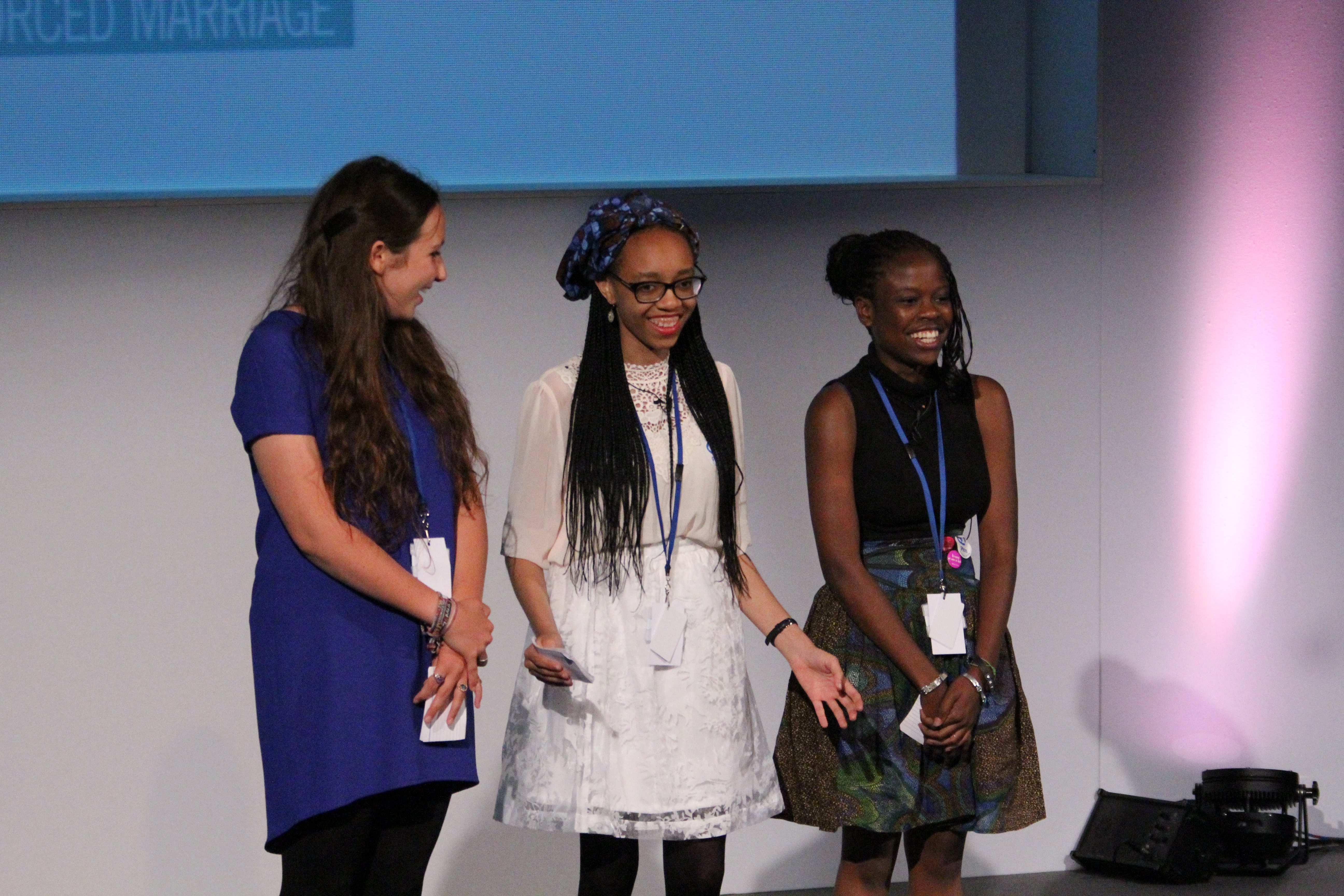 Picture: Russell Watkins/Department for International Development. Available free under the terms of Crown Copyright/Open Government License/Creative Commons - Attribution